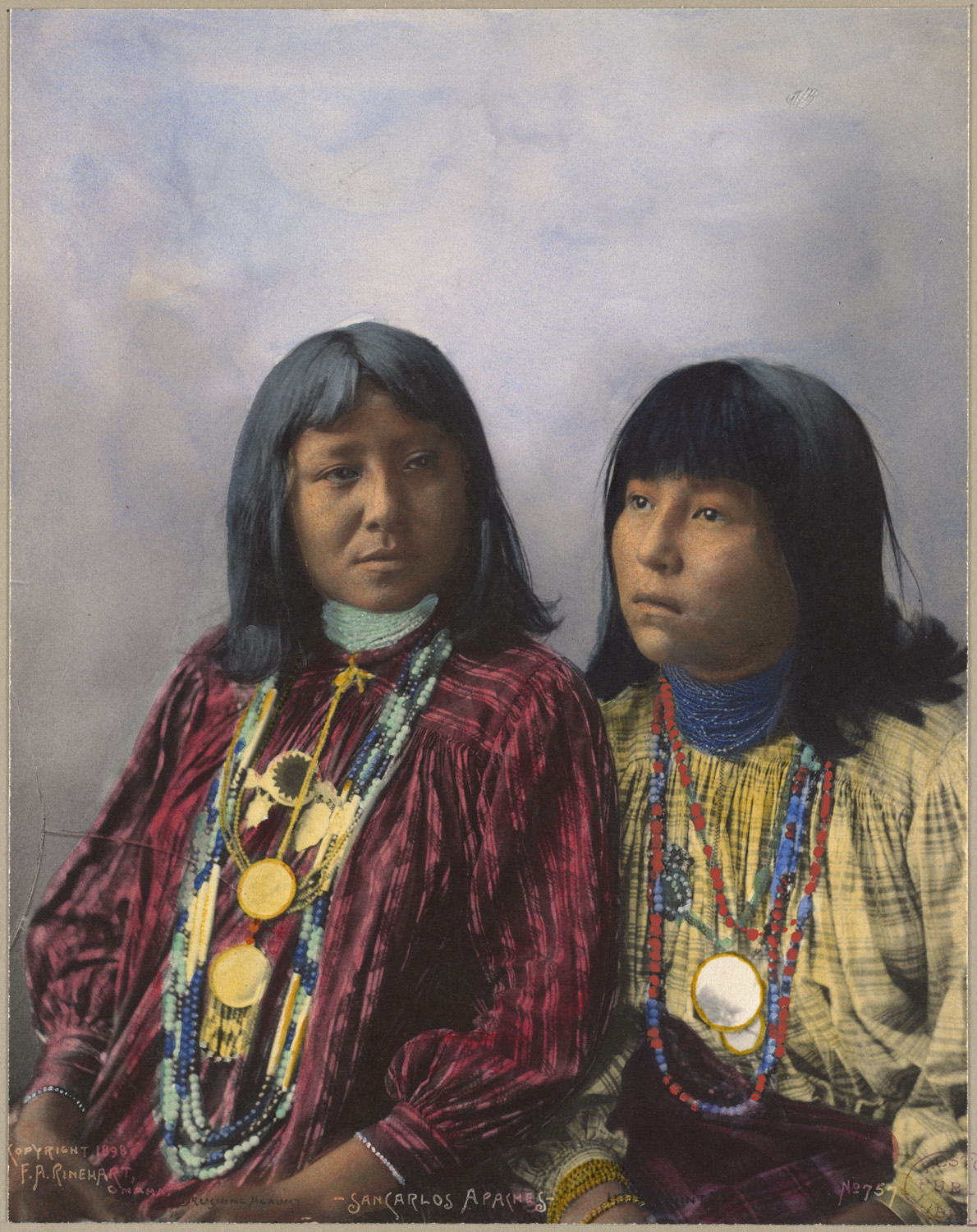 BPLDC no.: 09_06_000089 Rinehart no.: 757 Title: Brushing Against, Little Squint Eyes, San Carlos Apaches Photographer: Rinehart, F. A. (Frank A.) Copyright date: 1898 Extent: 1 photographic print : platinum, hand-colored Genre: Platinum prints; Portrait photographs Subject: Indians of North America; Apache Indians; Trans-Mississippi and International Exposition (1898 : Omaha, Neb.) BPL Department: Print Department